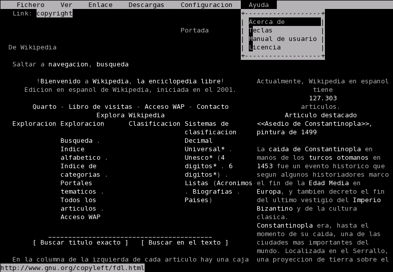 Links 0.99 (web browser) in text mode showing the main page of the Spanish Wikipedia. Dropdown menus are shown too.